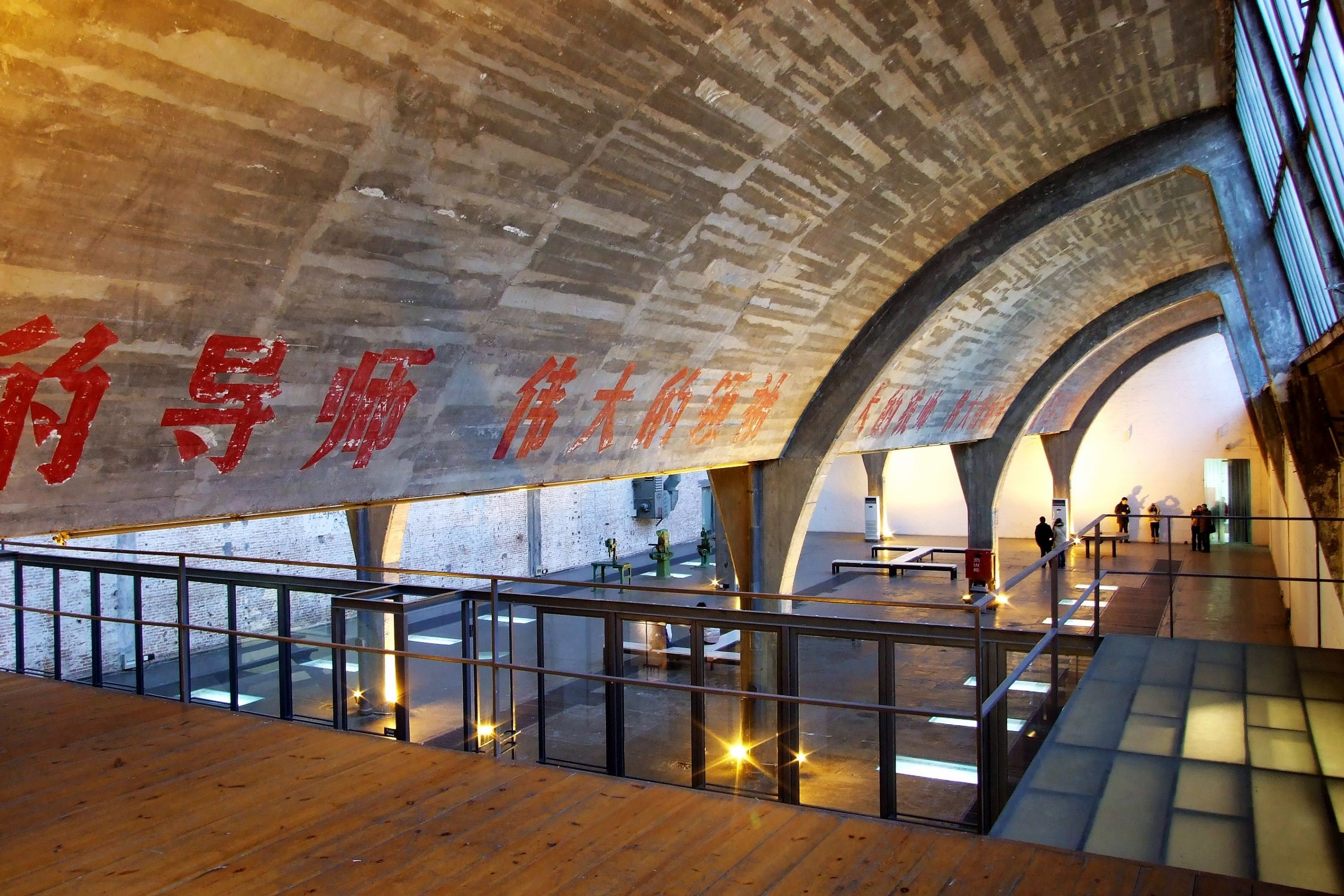 exhibition centre in 798 zone. 中文（中国大陆）: 俯瞰798主展区